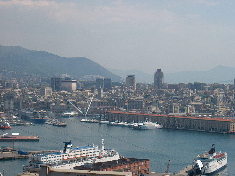 view of old harbour